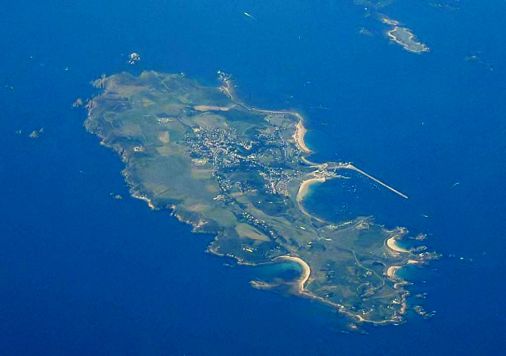 An aerial shot of the islands of Alderney (centre) and Burhou (upper right) in the Channel Islands. I took the image on Sunday August 21, 2005 during a commercial flight between London Stansted and La Rochelle. Reworked version of Image:Alderney_aerial.jpg by smial